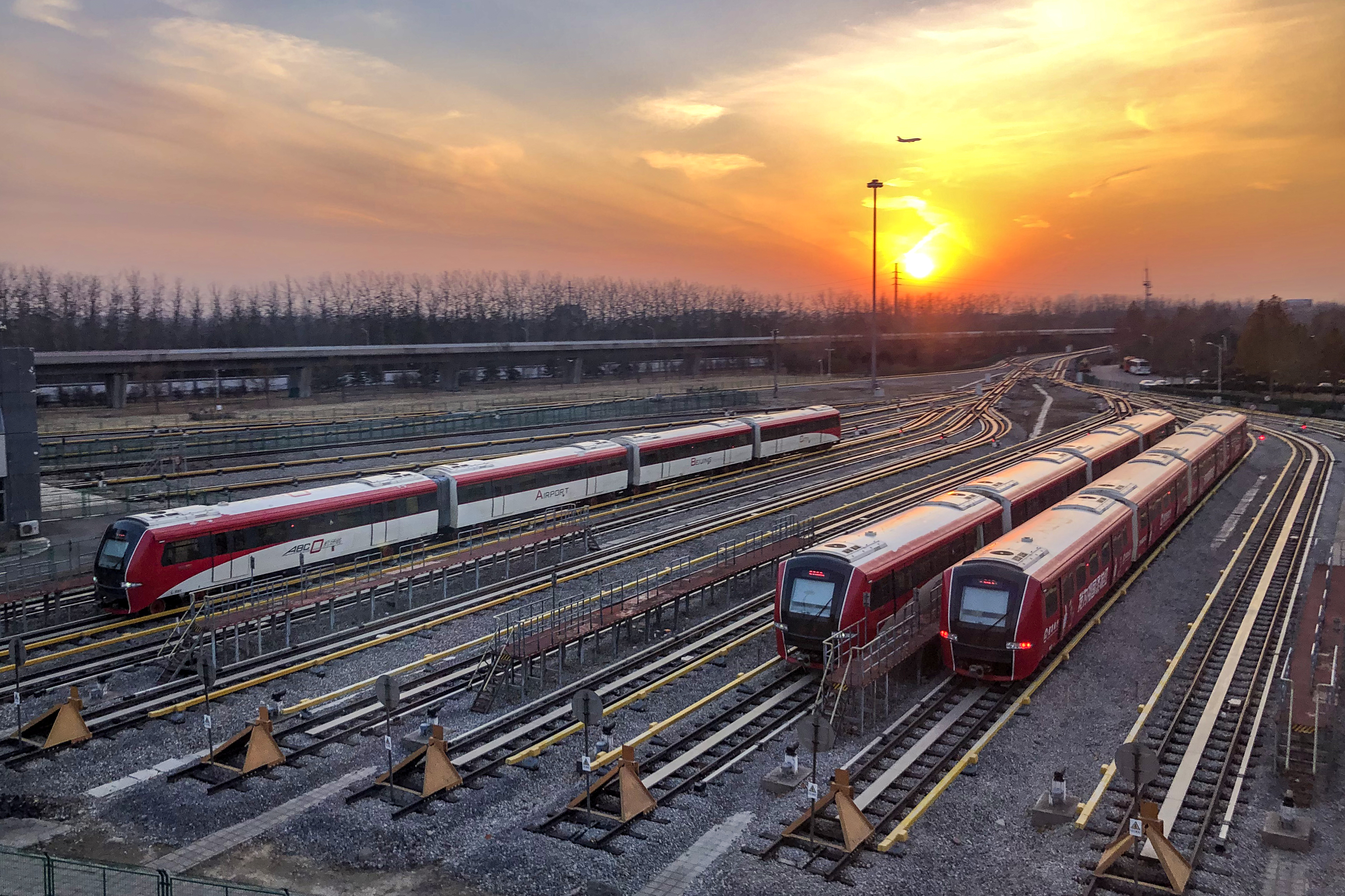 Three trains at depot. The landing aircraft may be MF8171 (B-5750) arriving from Fuzhou.